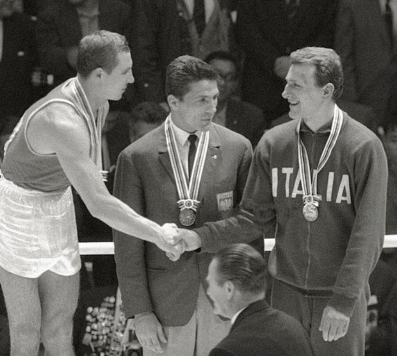 Left-right: Valeri Popenchenko, Tadeusz Walasek, Franco Valle at the Tokyo Olympics. Tokyo, October 1964